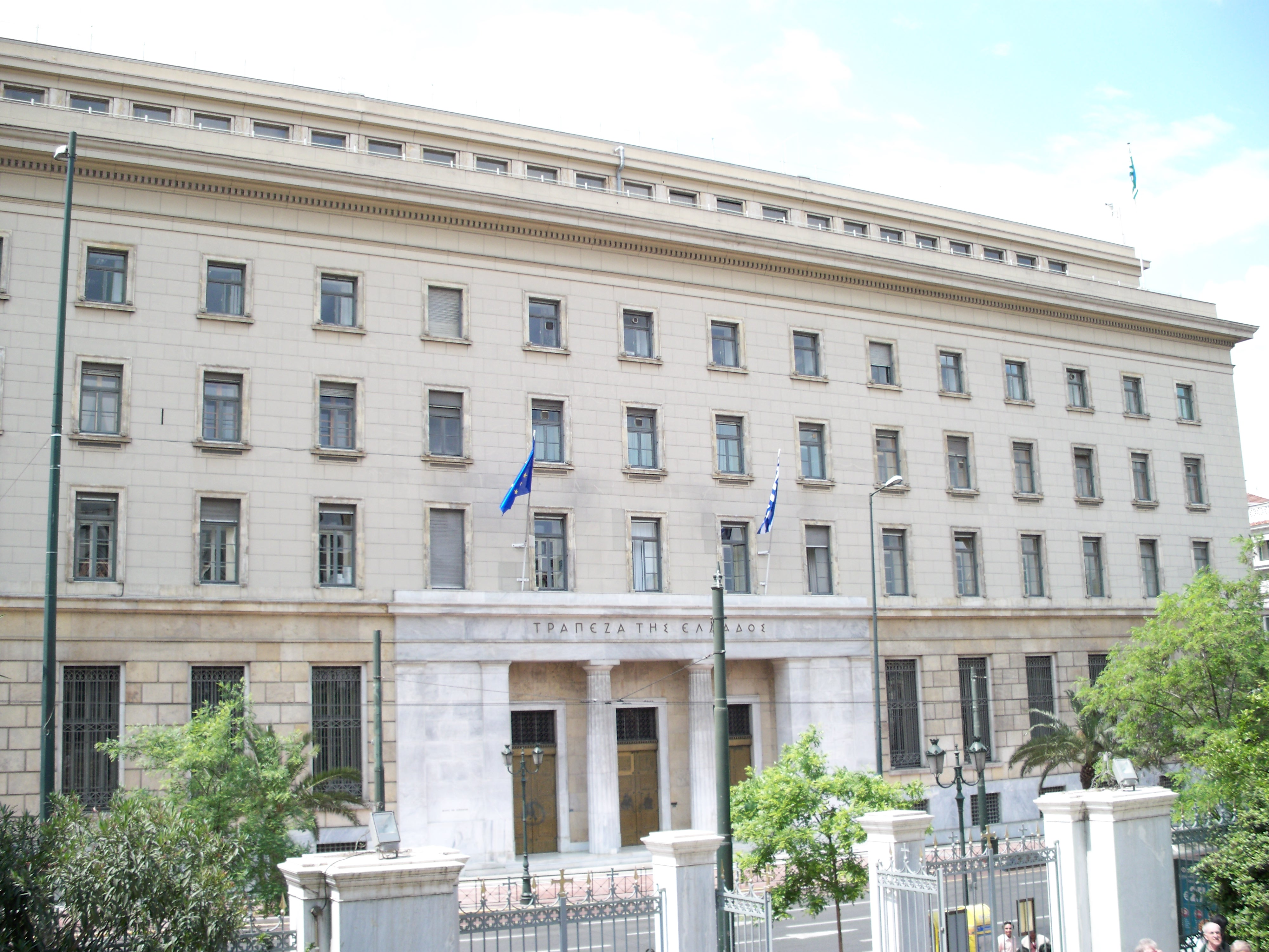 Main building of the bank of Greece.